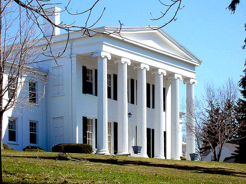 Paul Malo photograph